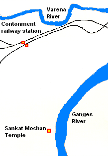 Personal drawing. Photographic reference: [1]